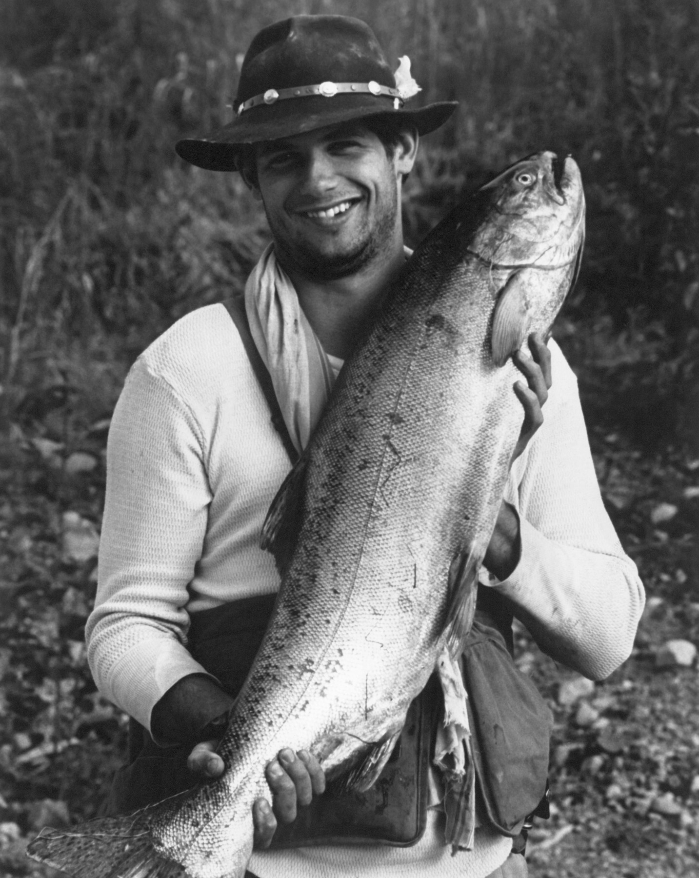 Photograph of artist Alex Beard